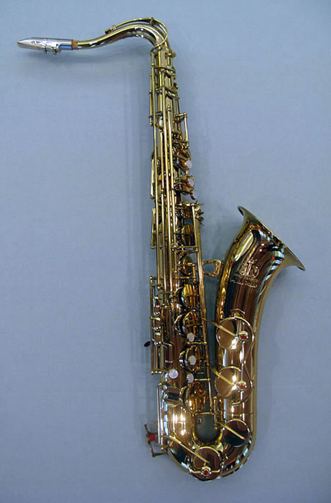 Amati-Kraslice tenor saxophone with mother-of-pearl keys. Gift to President Clinton from Vaclav Havel, President of the Czech Republic.